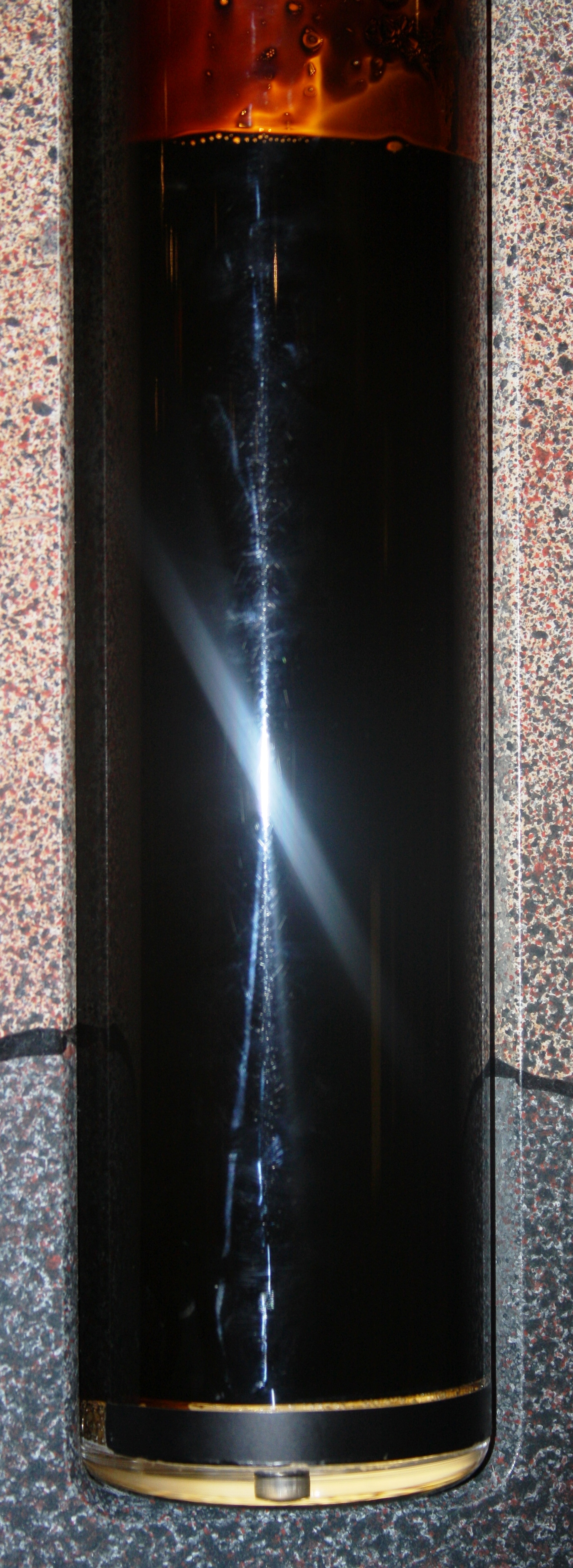 North Sea Oil from the Norwegian continental shelf. This oil is from the Gullfaks field. API value = 32.8. Viscosity at 50 degrees Celsius = 5.9 mPas.